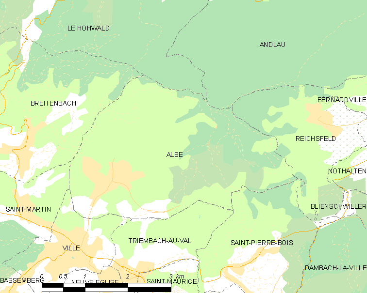 Map of French municipality